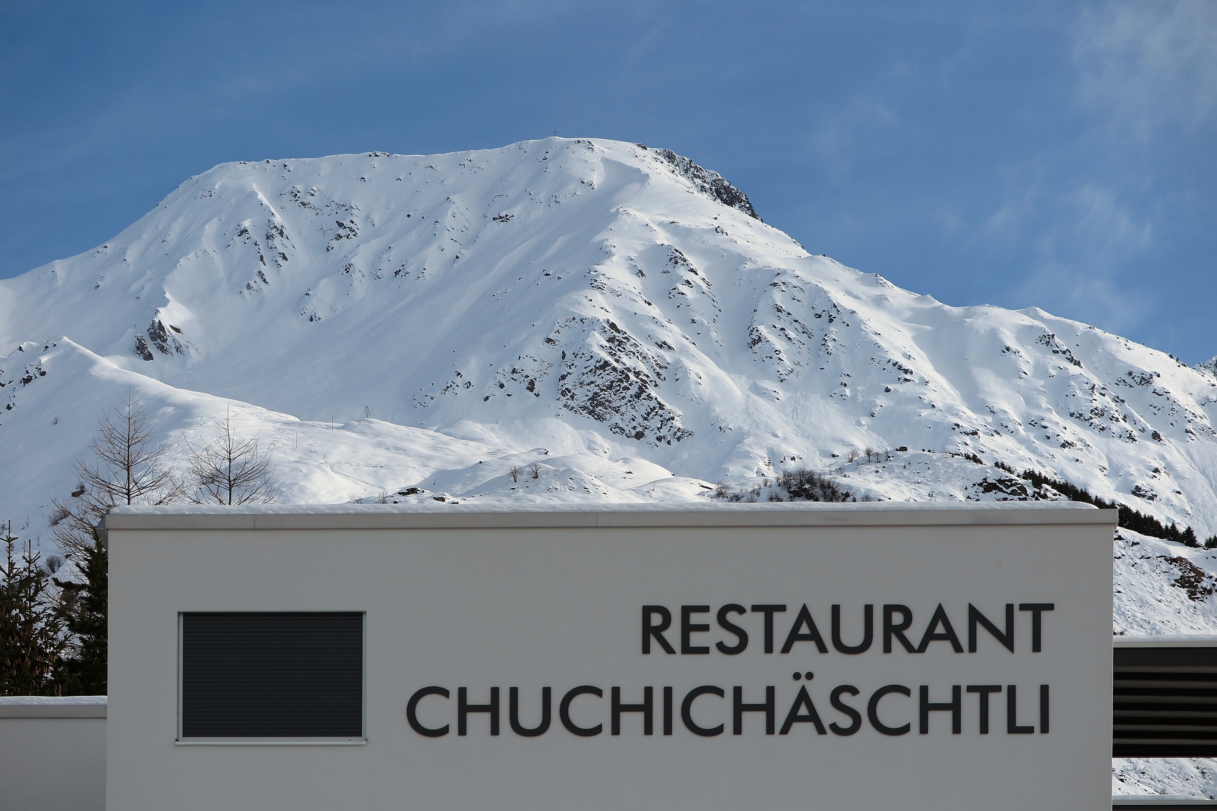 The Swiss make fun of speakers of other languages with this most famous word in Swiss German. 'Chuchichäschtli' is the designation for a small kitchen cabinet. In this case it is used as name for a restaurant. Switzerland, Nov 21, 2014.